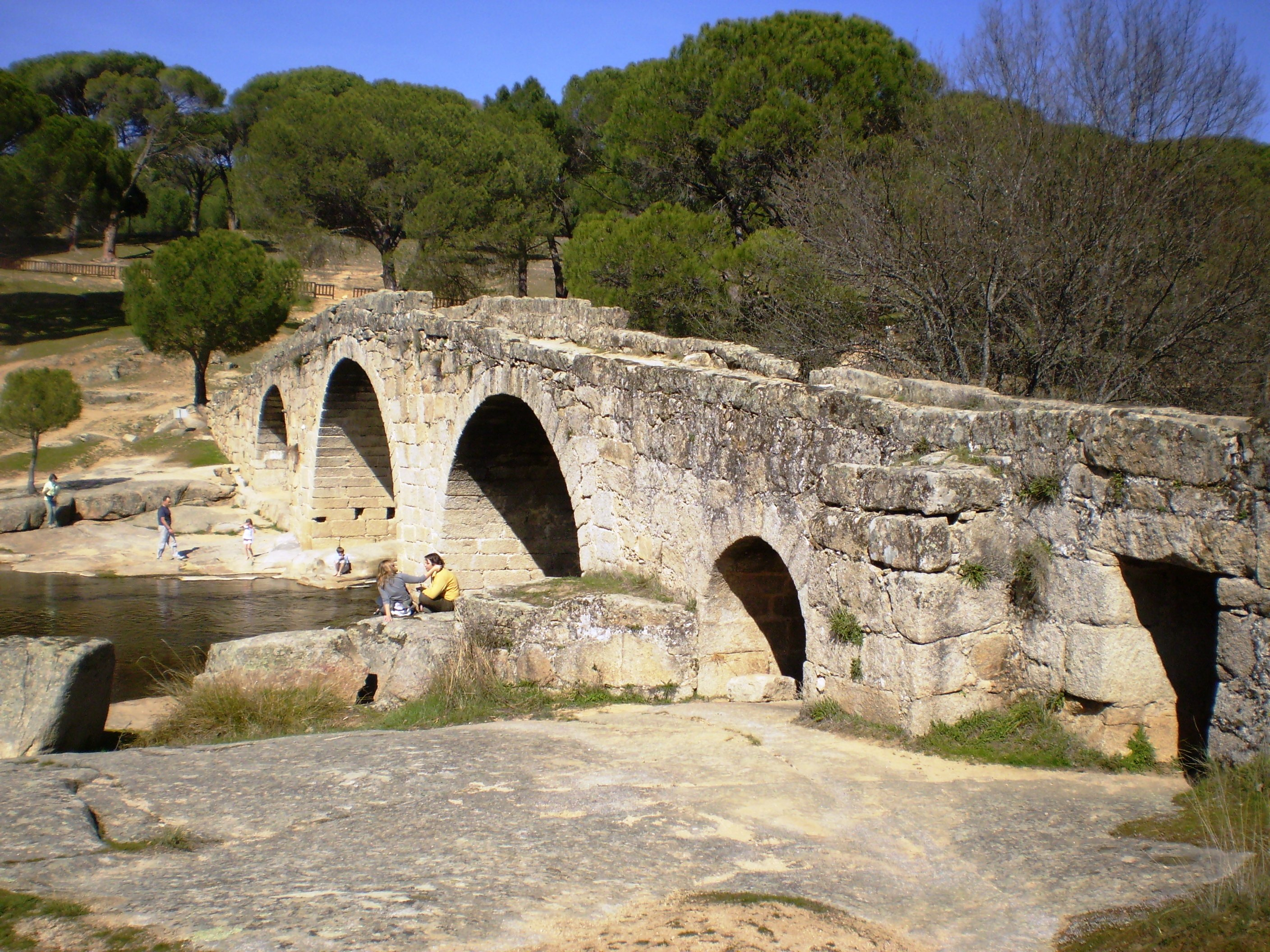 Mocha Bridge over Cofio River. Valdemaqueda. Community of Madrid, Spain